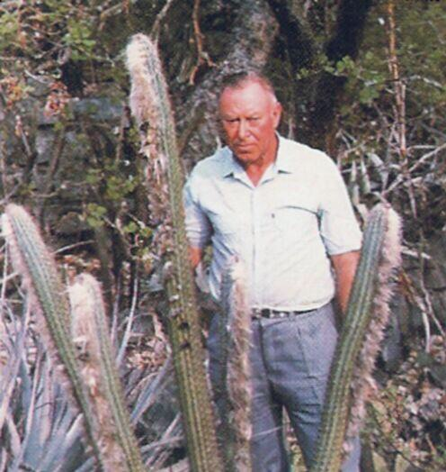 Leopoldo Horst together with Pilosocereus gounellei subsp. zehntneri (Pilosocereus braunii Esteves), Bahia, Brazil